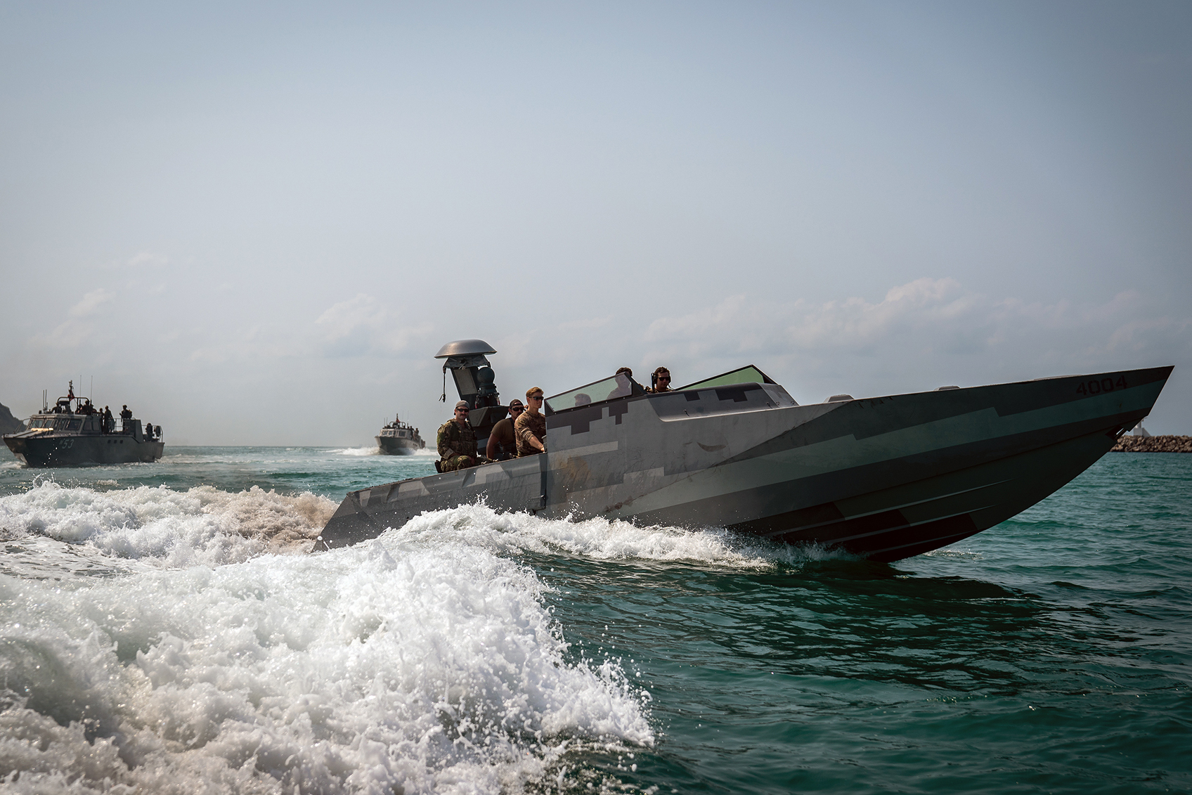 U.S. and Thai navy SEALs conduct visit, board, search and seizure training in Thailand, Feb. 15, 2019, during Cobra Gold, an annual multinational exercise.